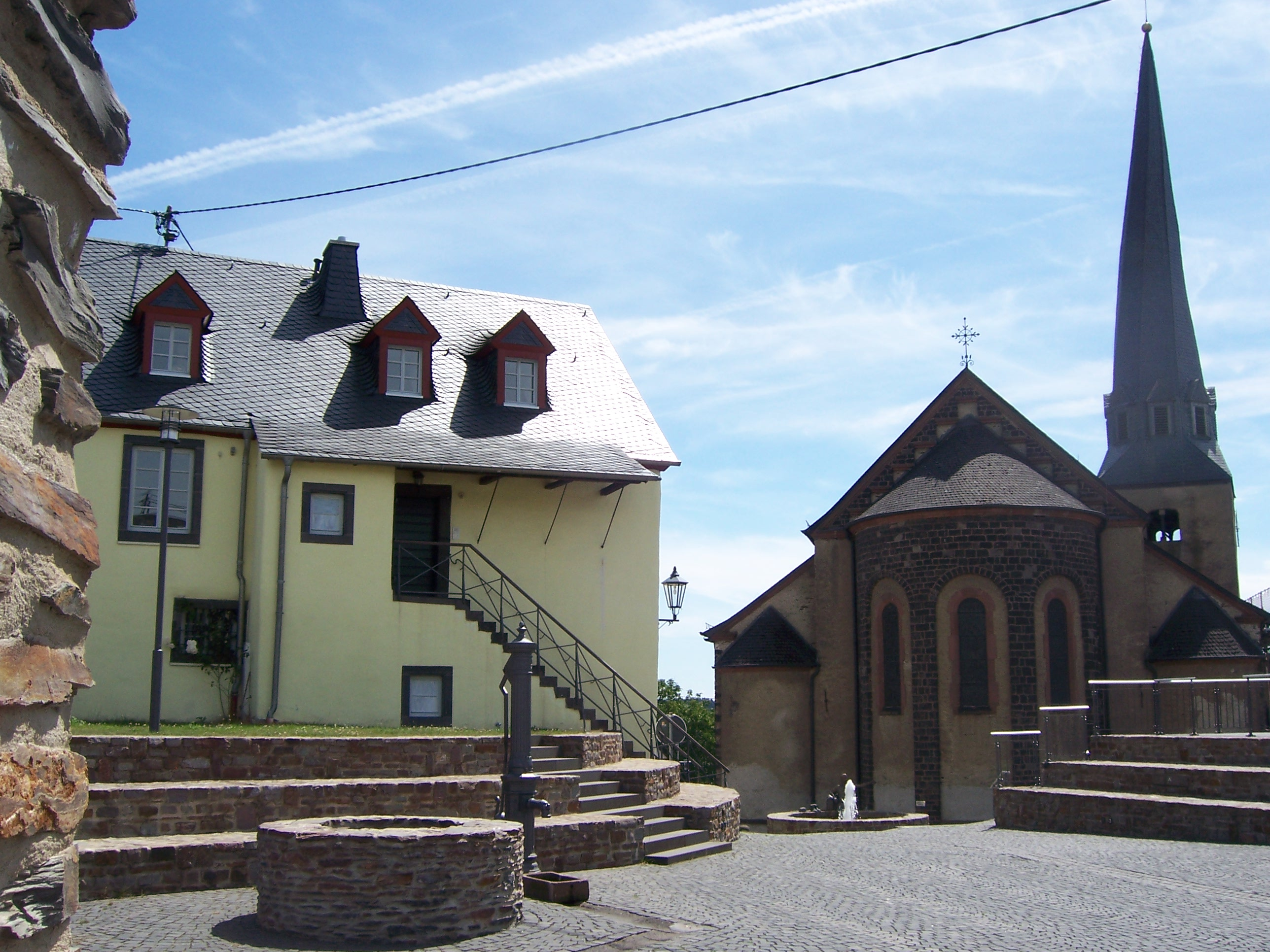 The new historical centre of Kaisersesch. In the background you can see the prison.